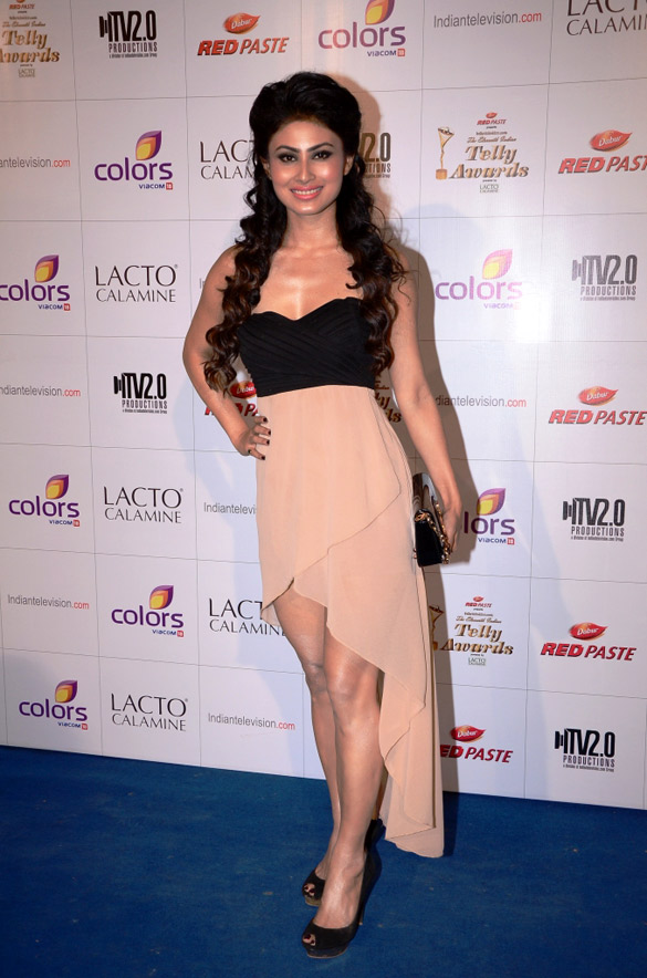 colors indian telly awards